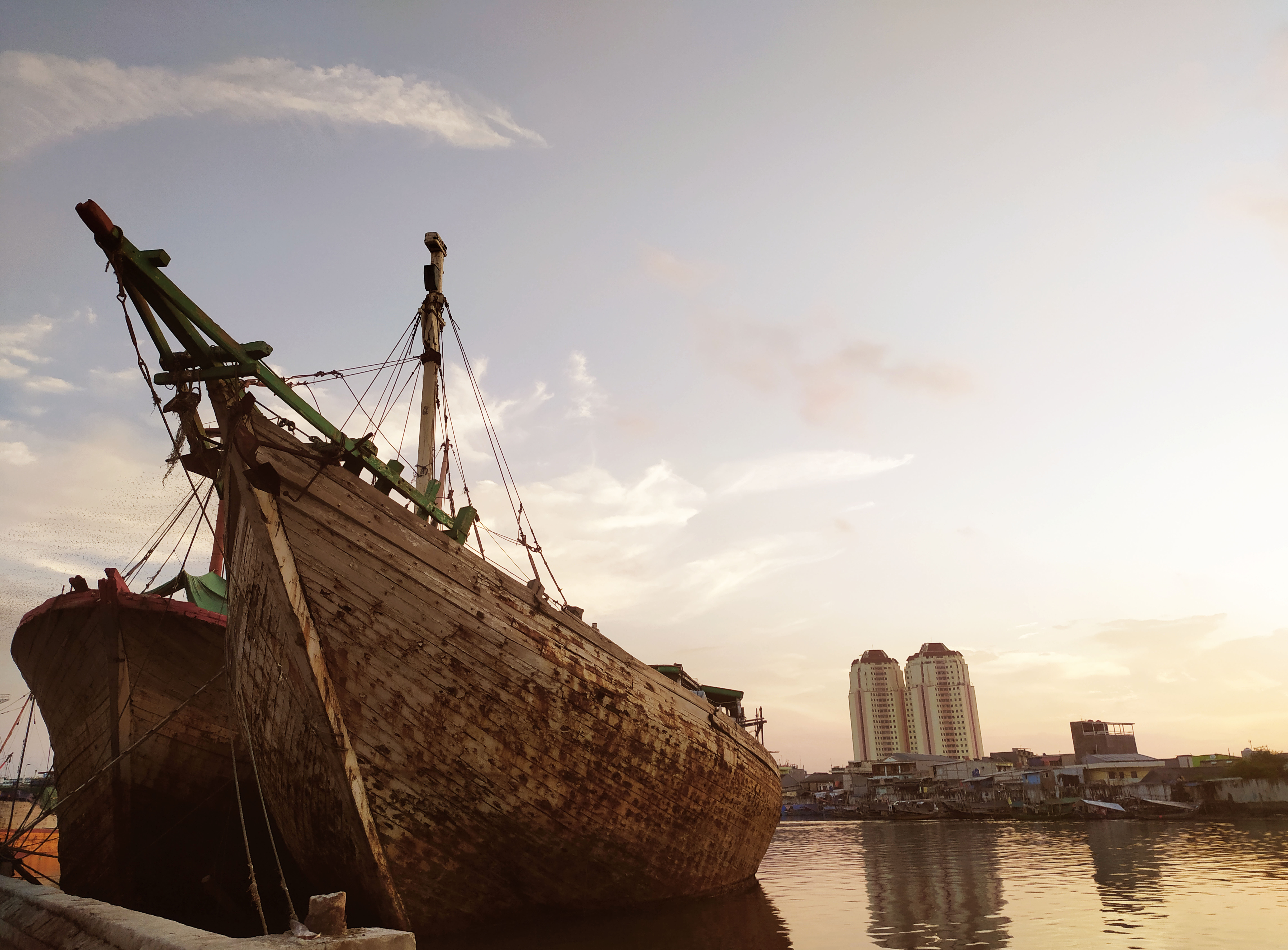 Dua kapal sedang bersandar di Pelabuhan Sunda Kelapa Pada 22 Februari 2020.